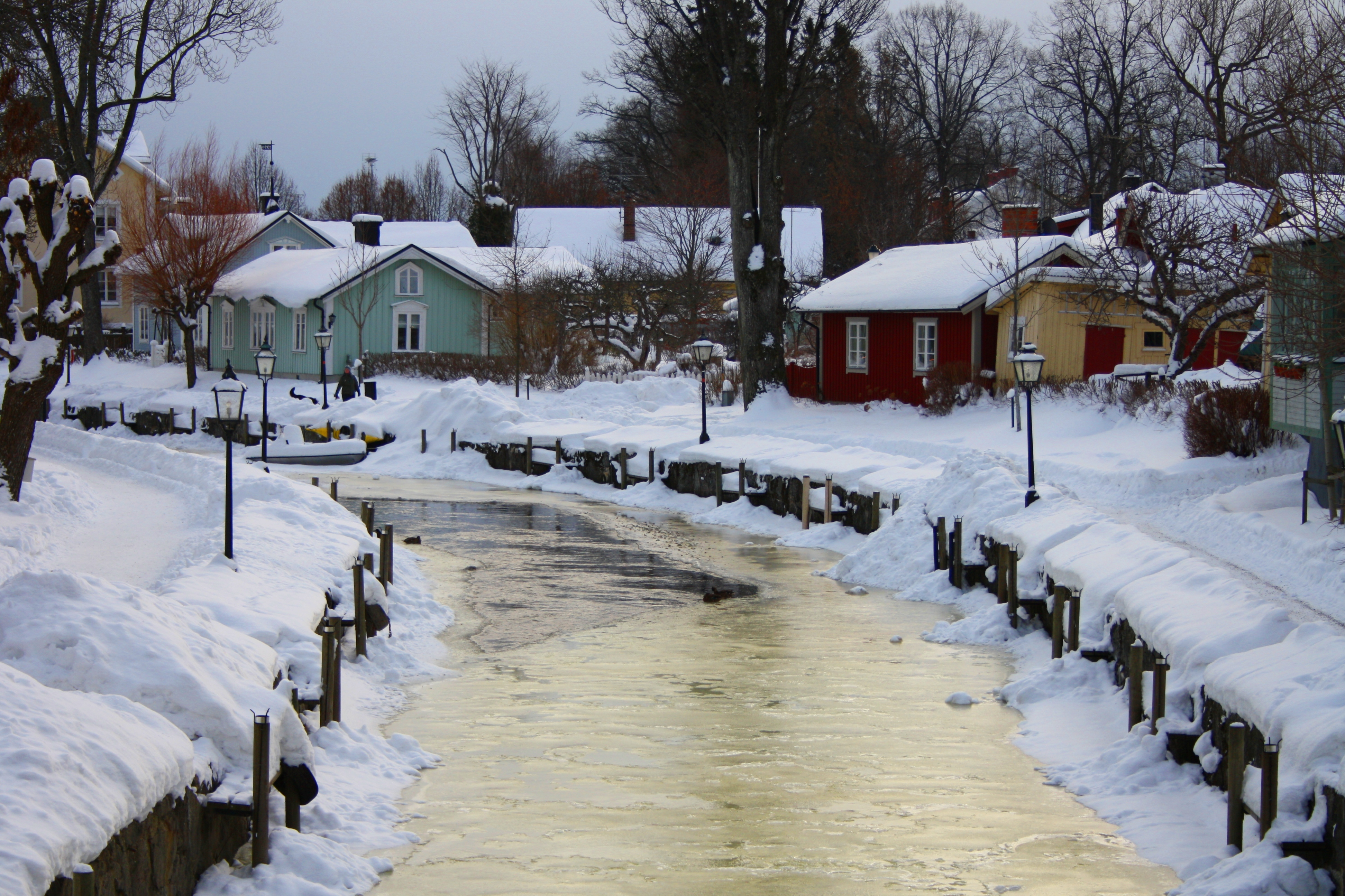 The river Trosaån in winter